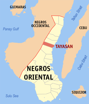 Map of Negros Oriental showing the location of Tayasan